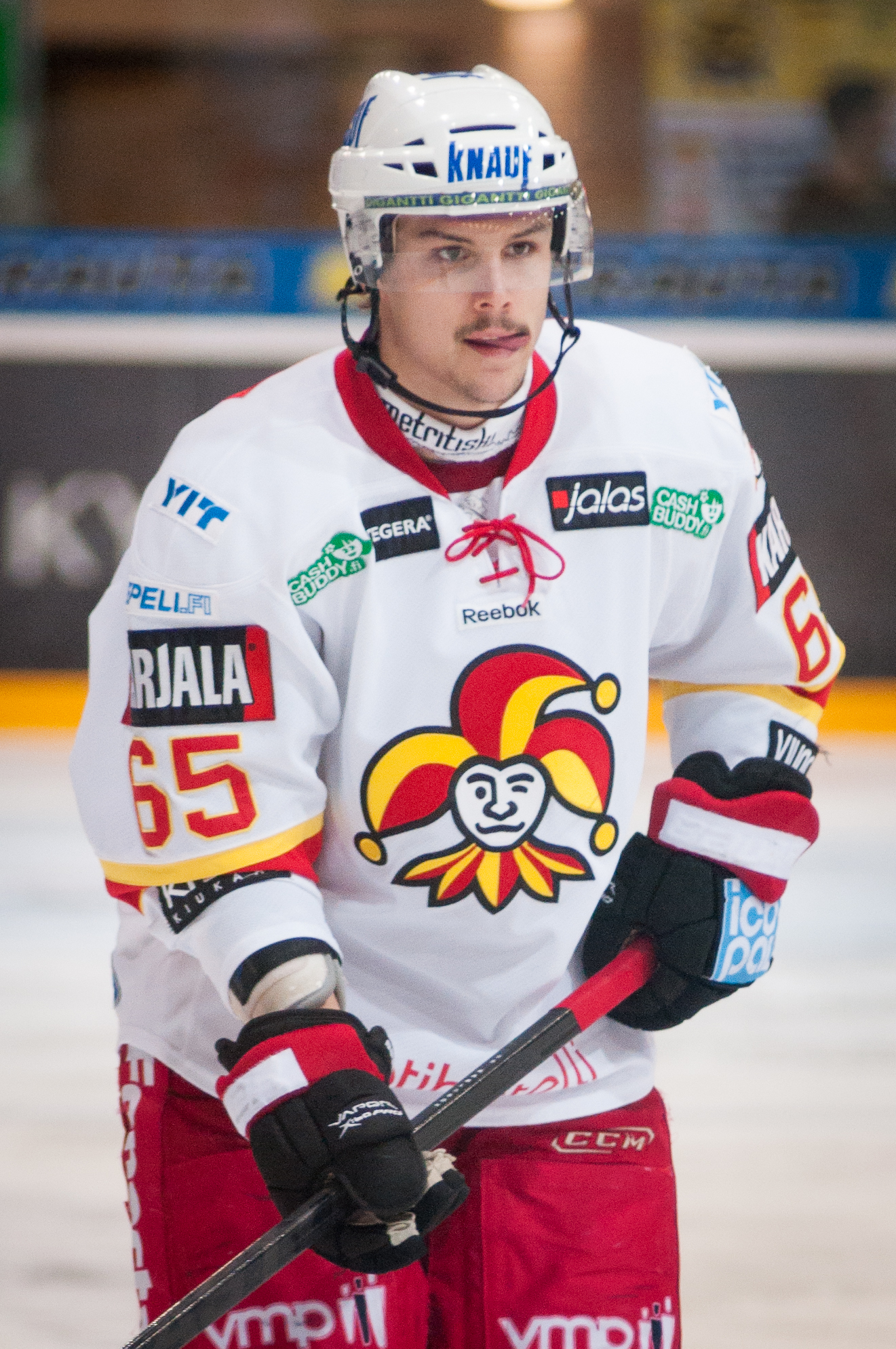 Swedish ice hockey defenseman Erik Karlsson playing for Helsingin Jokerit against SaiPa in Lappeenranta, Finland during the 2012-13 National Hockey League lockout.